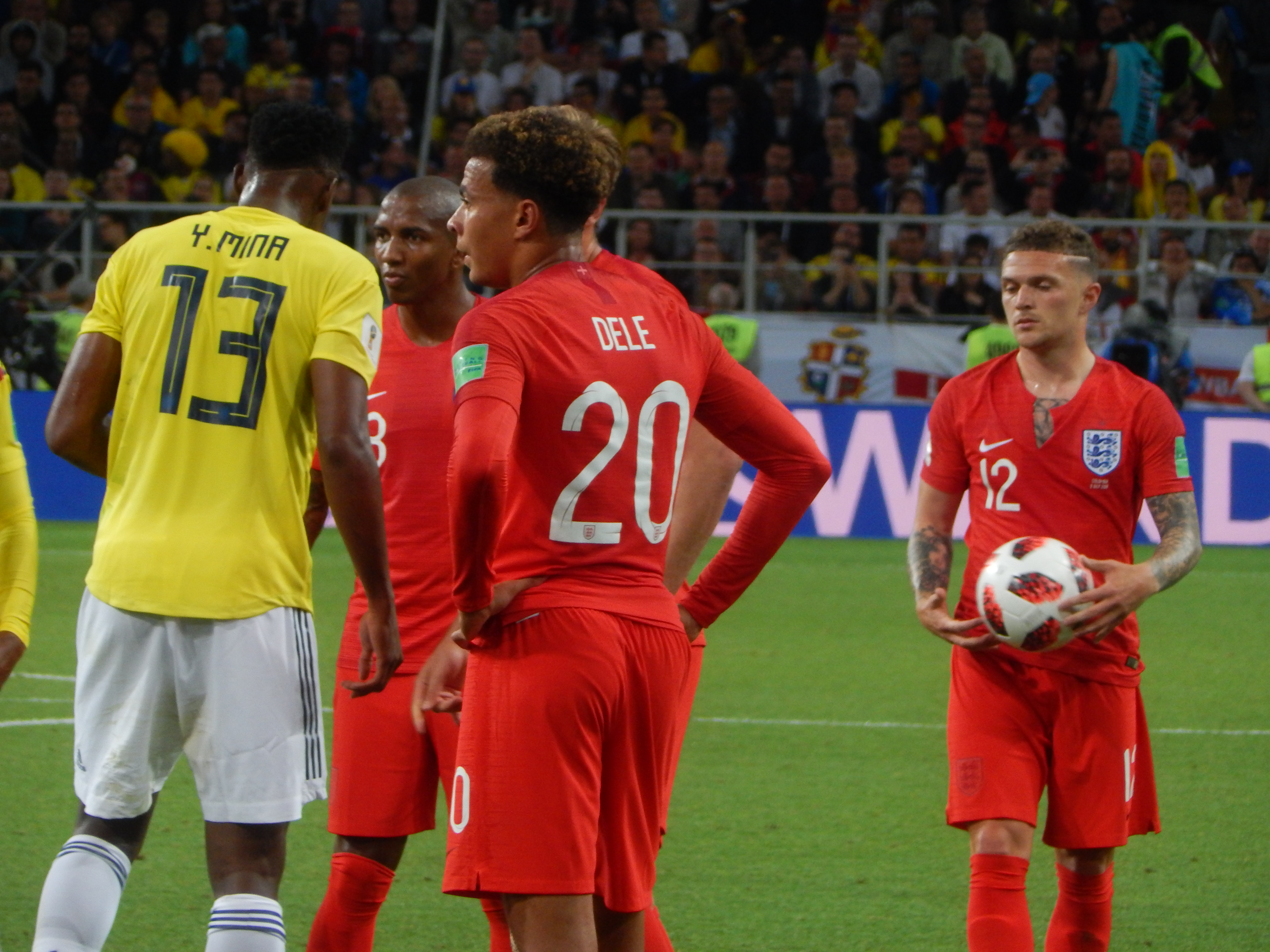 FIFA World Cup 2018, Round of 16, Colombia vs. England